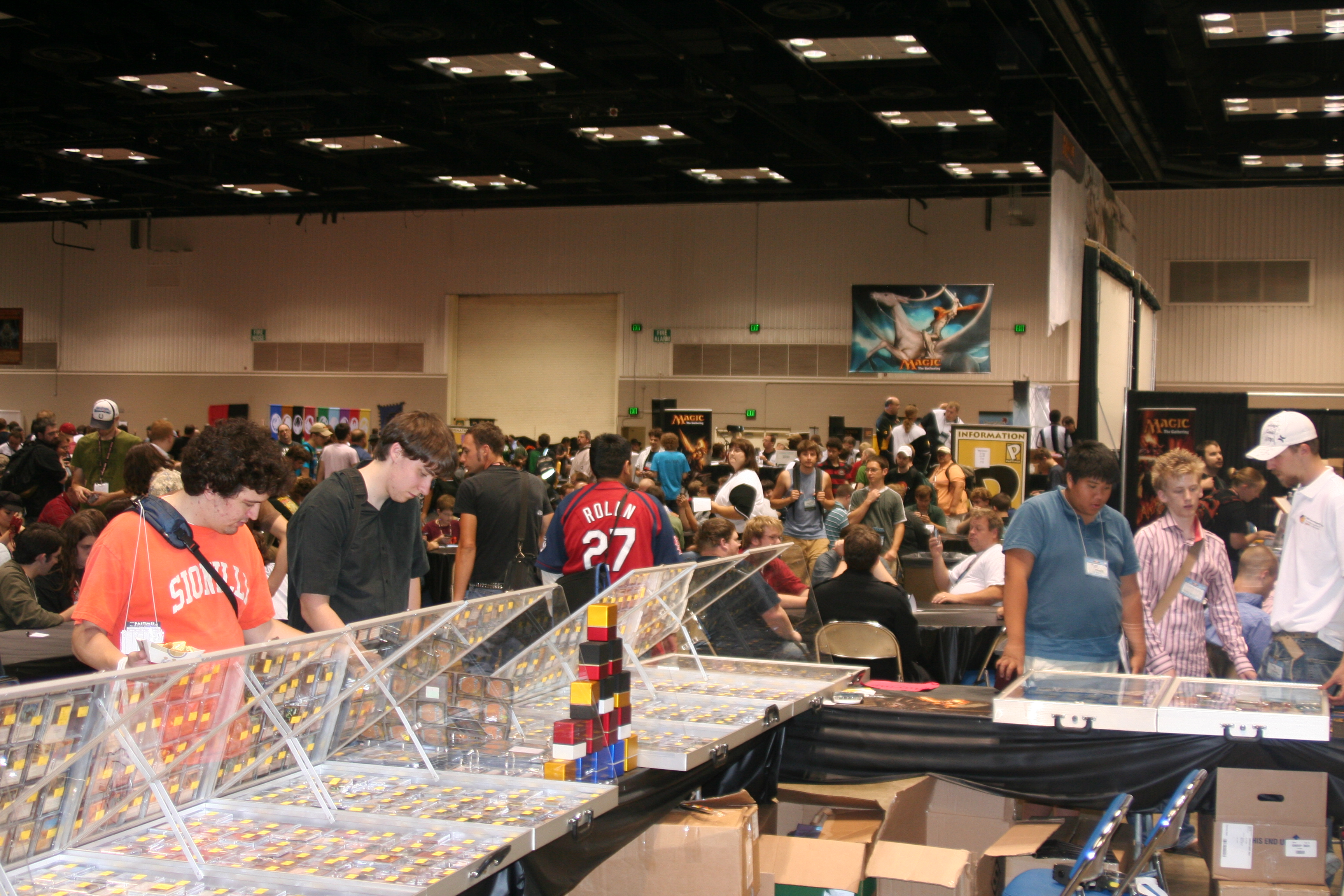 Picture of Gen Con Indy 2008 in Indianapolis, Indiana, USA.